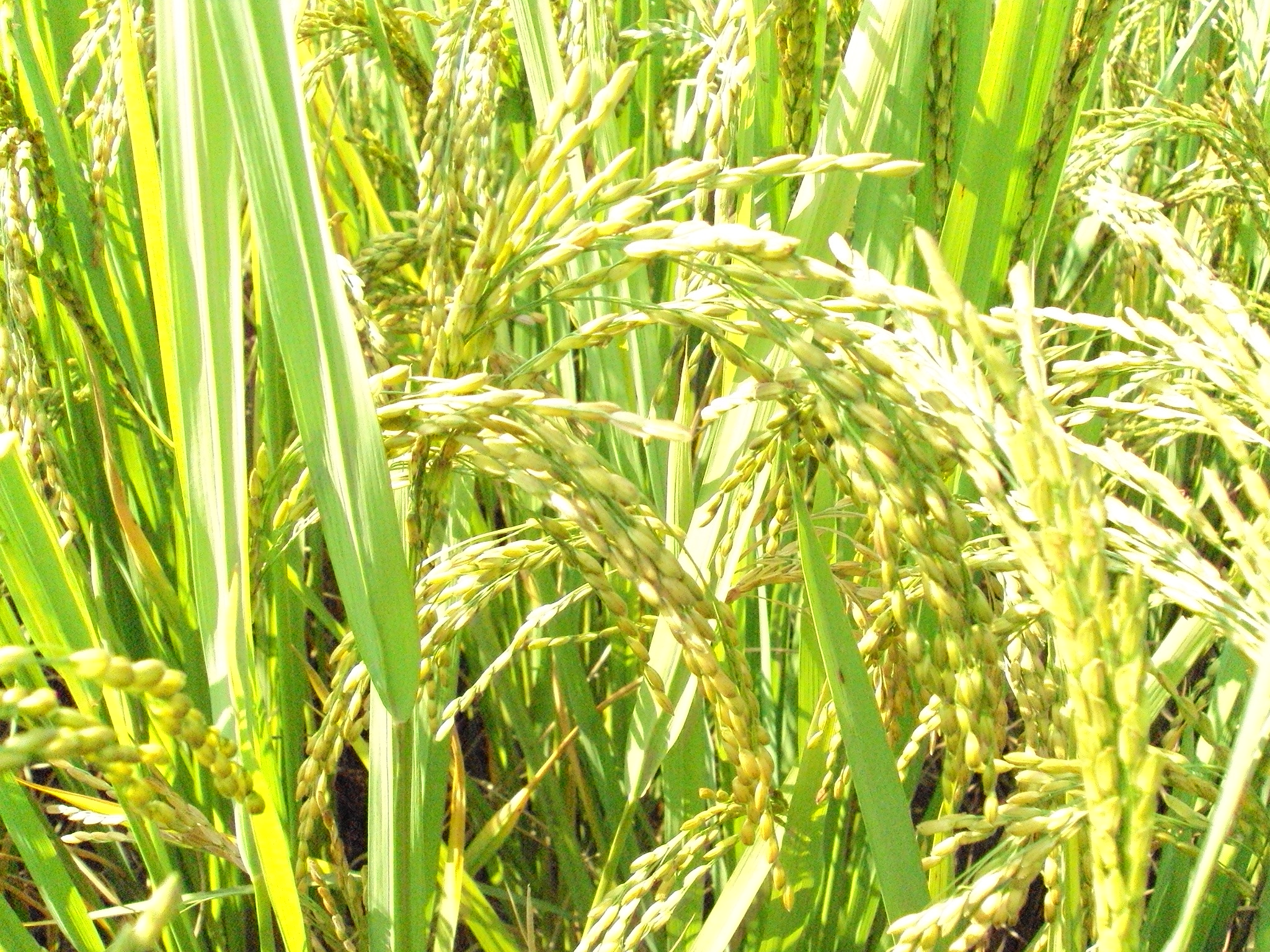 Paddy in West Bengal, India